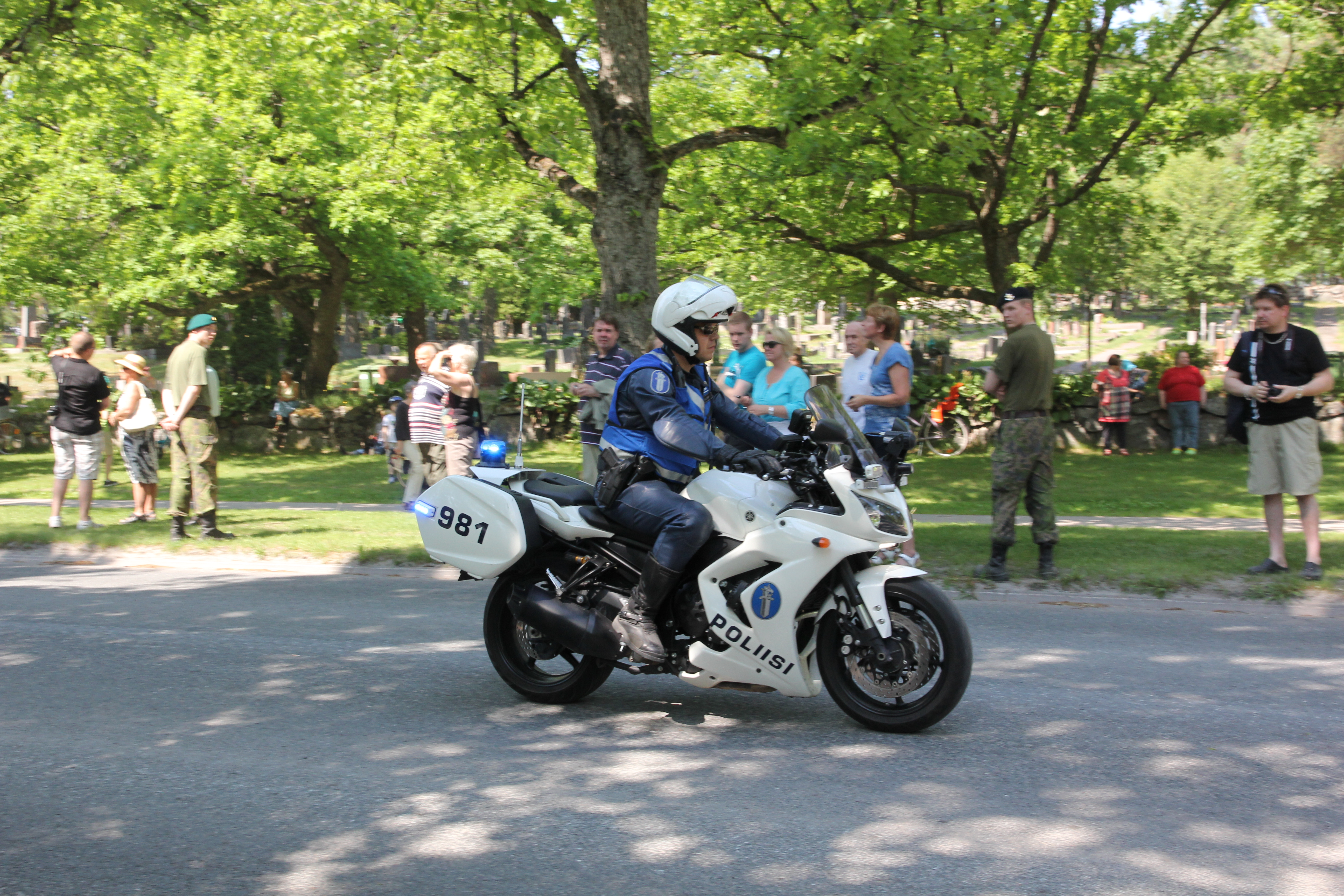 Motorcycle police following the heavy equipment during the Finnish military Flag Day 2013 parade along Raaseporintie road in Tammisaari.